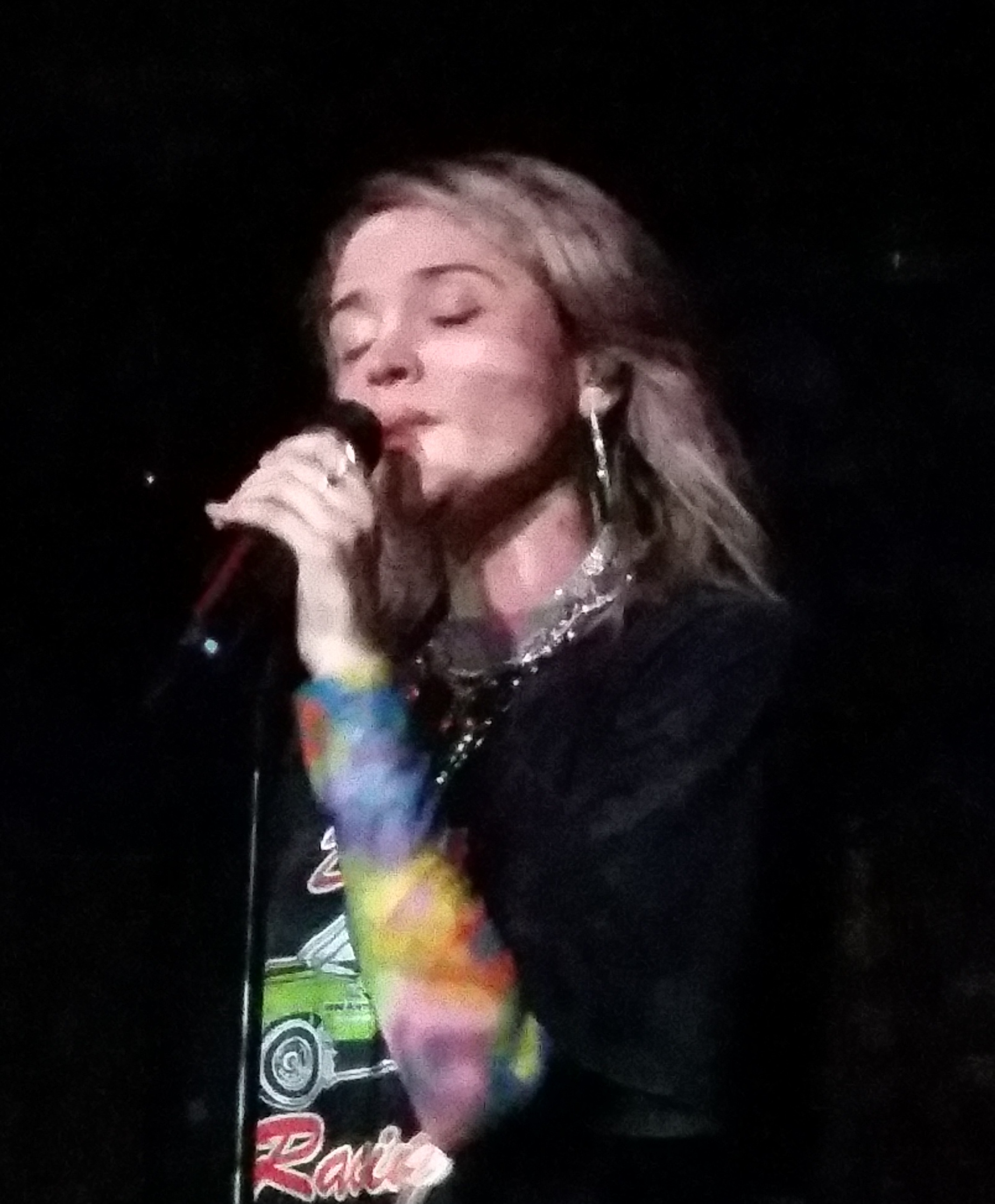 Lolo Zouaï on stage in Berlin, November 6, 2019